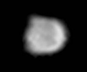 Best images yet of Metis, the innermost moon of Jupiter. taken January, 4th 2000 by NASA's Galileo spacecraft.